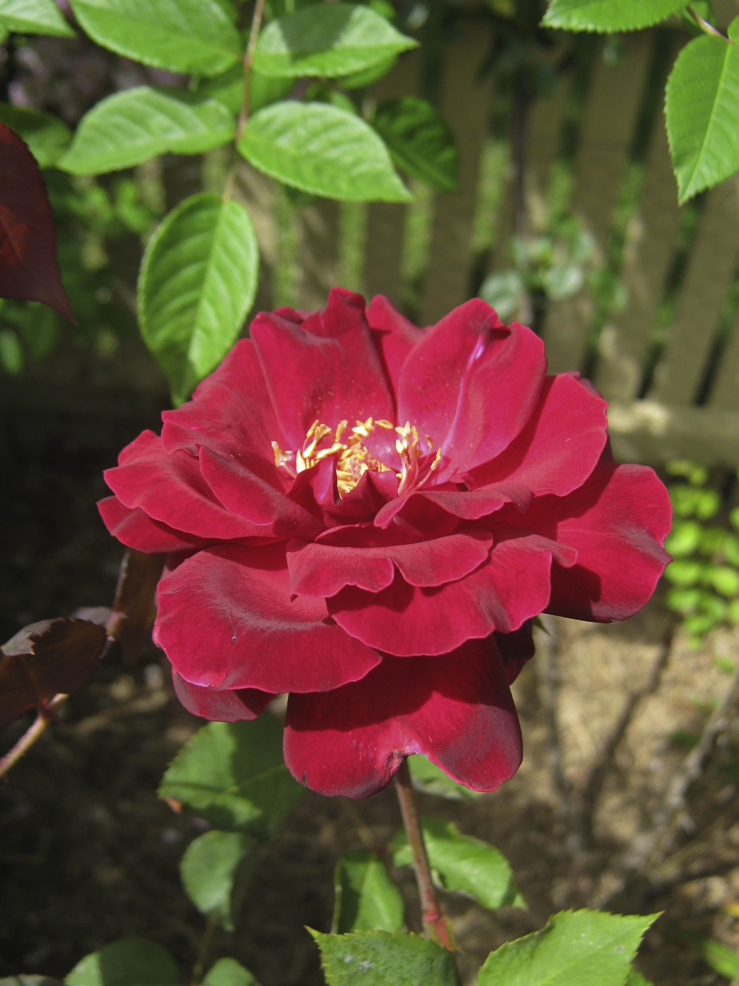 Rose 'Mrs Albert Nash', Hybrid Tea by Alister Clark 1929; Photographed in the Alister Clark Memorial Rose Garden, Bulla, Victoria